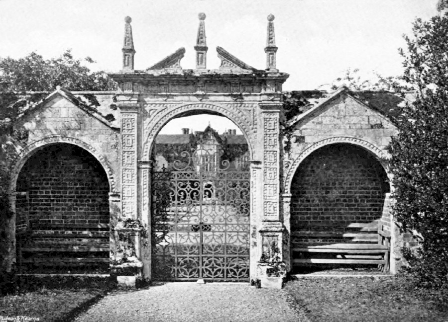 Photo of the postern gate at Bramshill House.